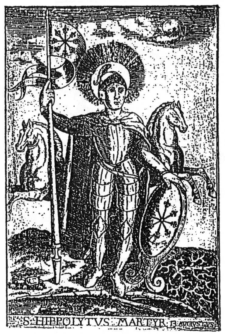 Engraving with Saint Hippolytus, from a print from Delft, 17th cent.